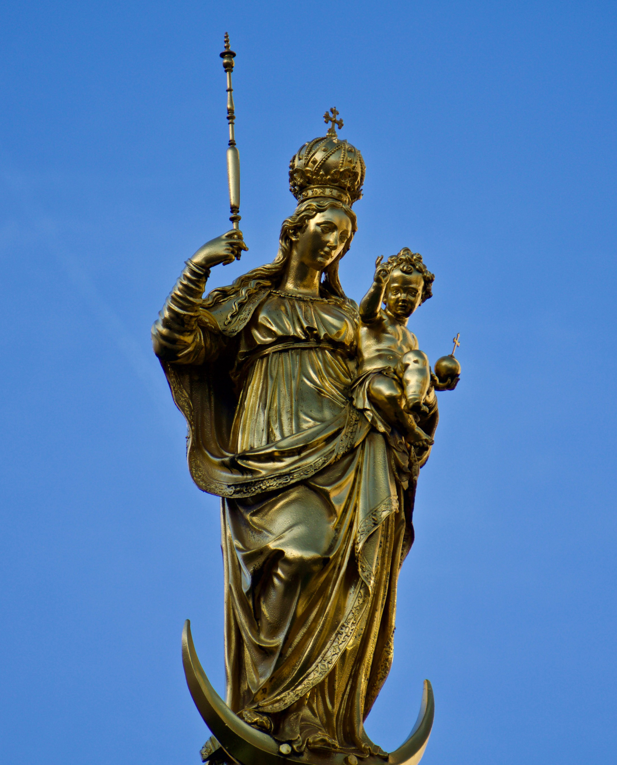 Golden Statue of Holy Mary - Marienplatz, Munich